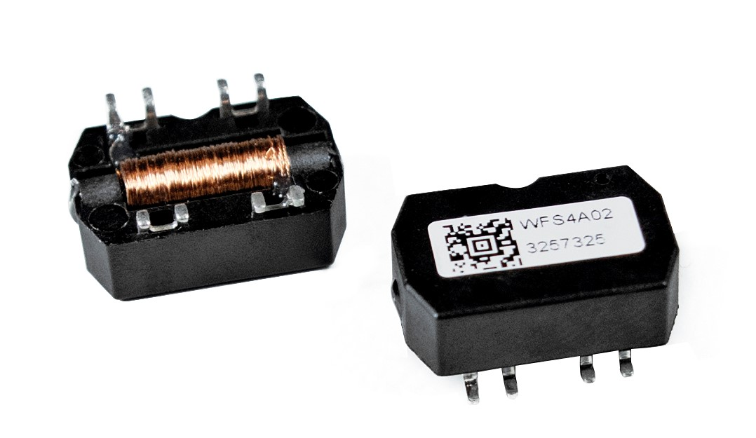 A Wiegand Sensor shown from both sides.